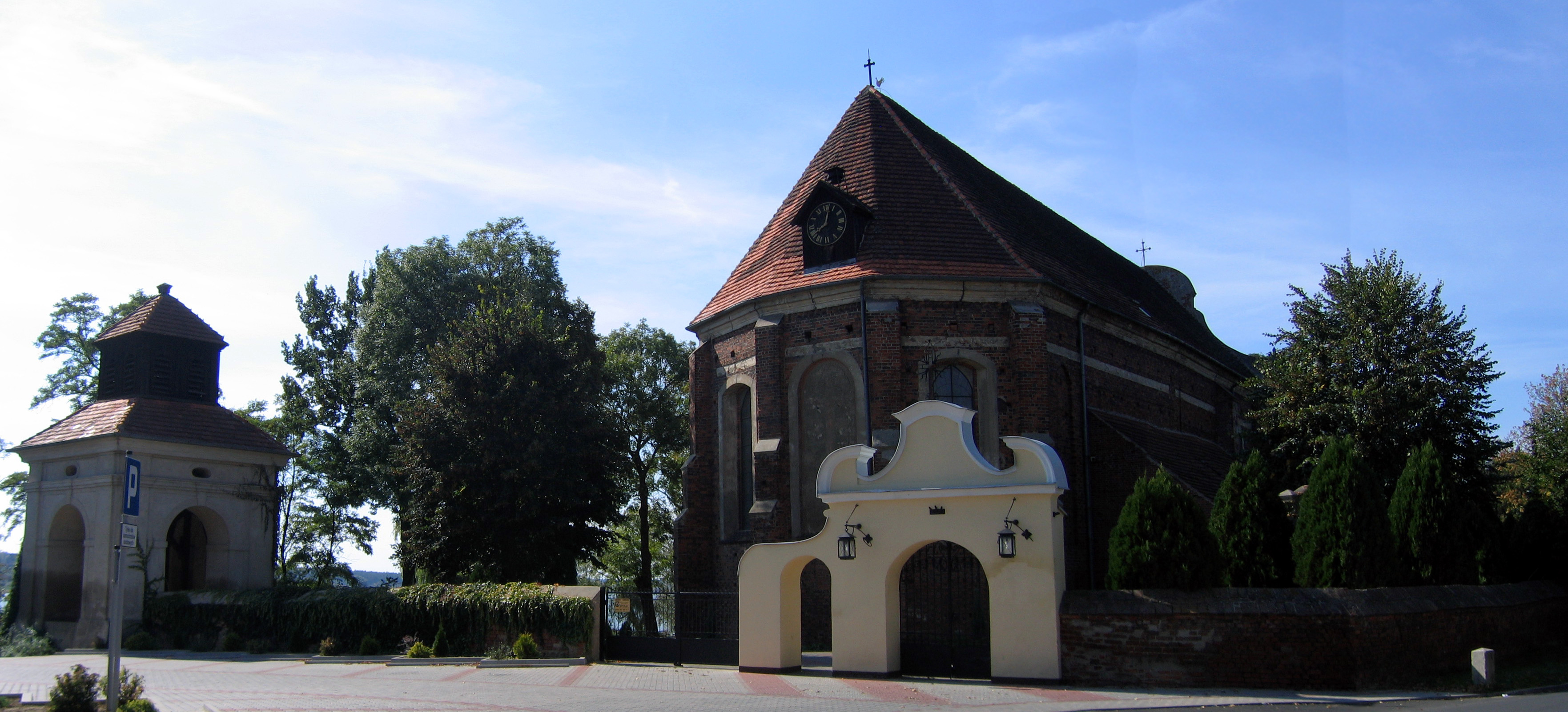 Church of St. Michael in Dolsk